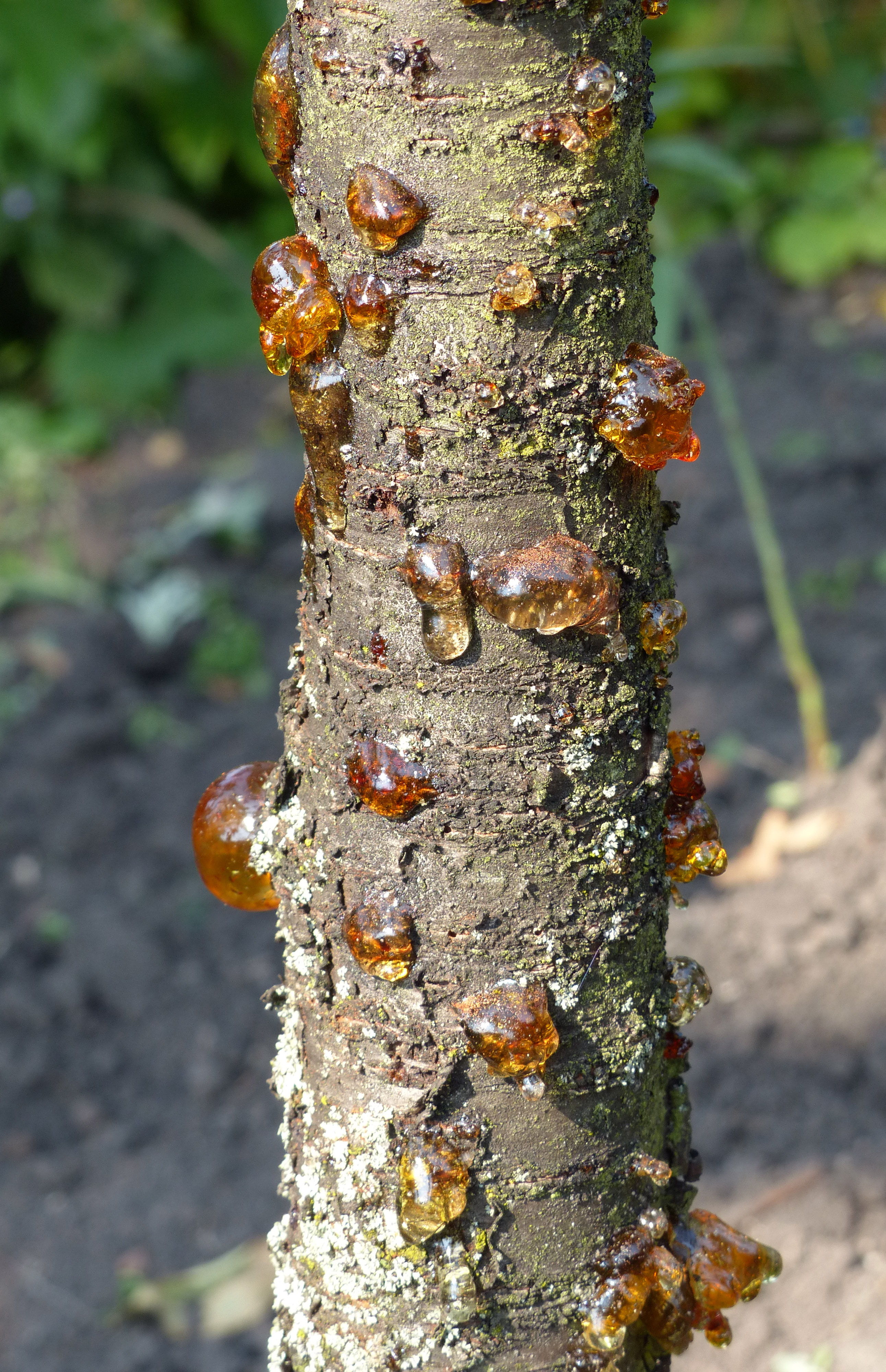 Trunk of a dying cherry tree, dripping resin.